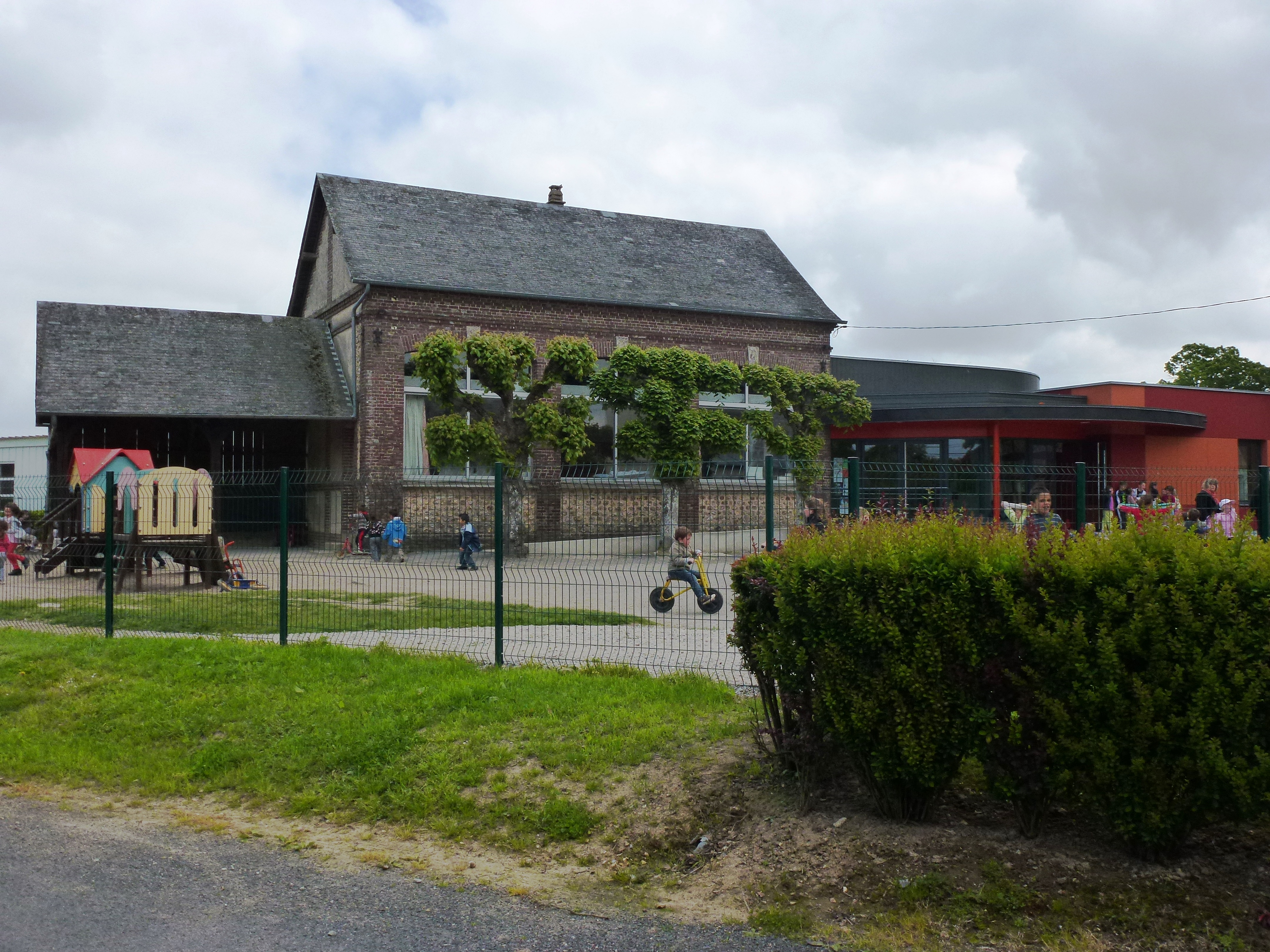 Franqueville (Eure, Fr) école